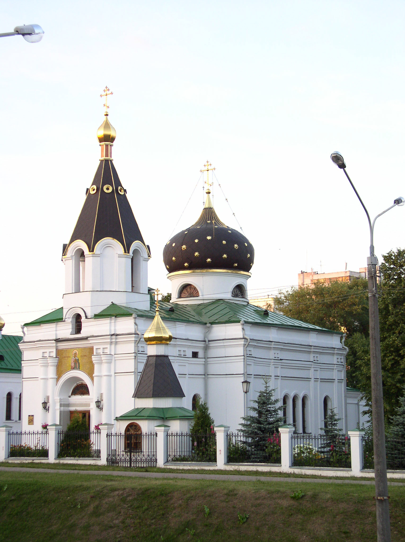 Church of Saint Mary Magdalene, Minsk, Belarus.